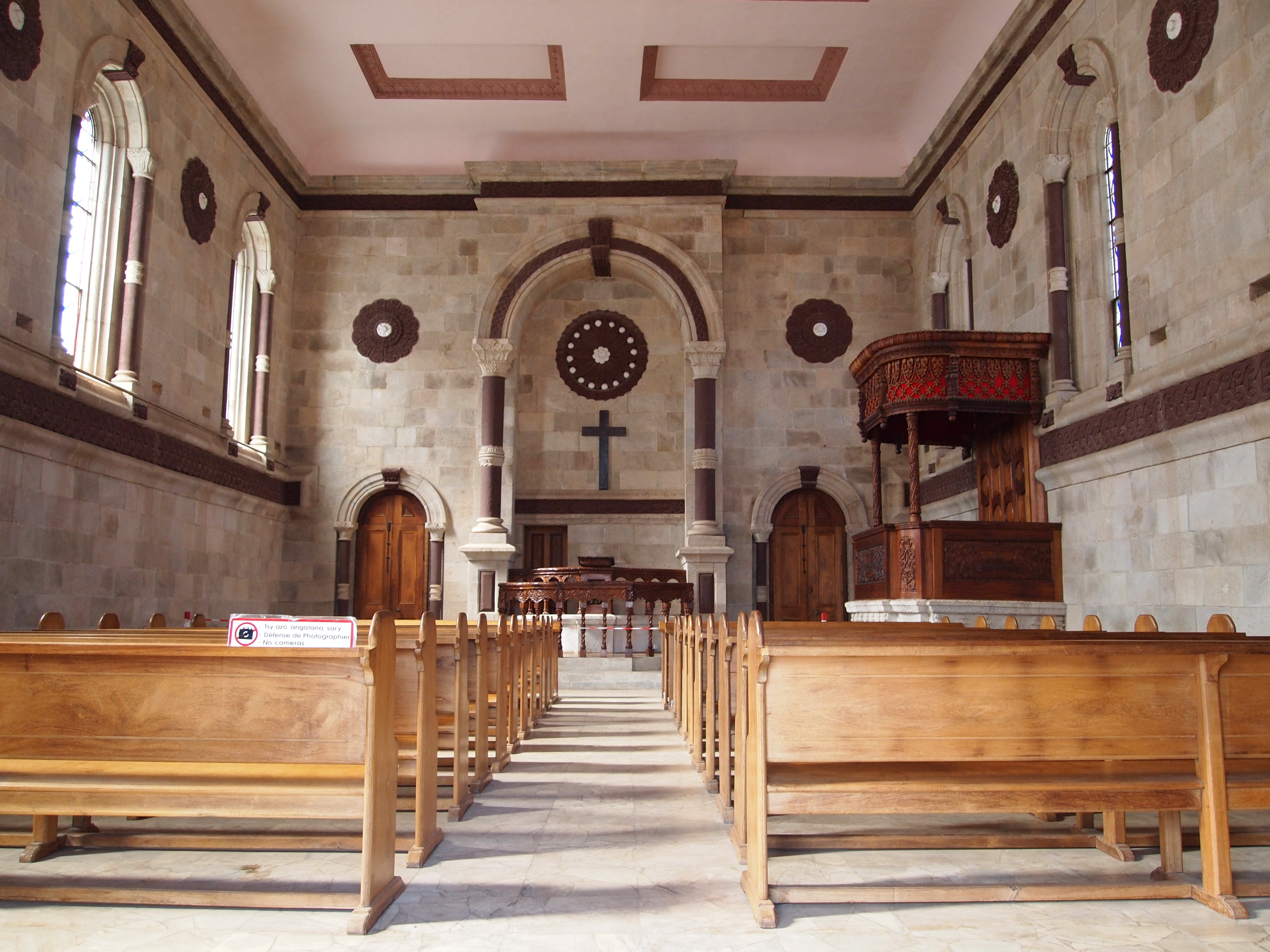 Interior of royal chapel at Rova of Antananarivo Madagascar